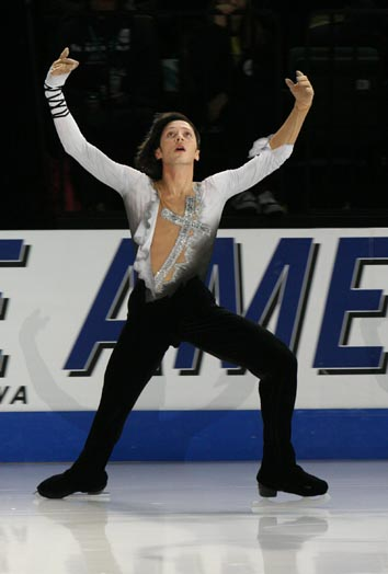 Weir performs an Ina Bauer during his exhibition program at the 2008 Skate America.